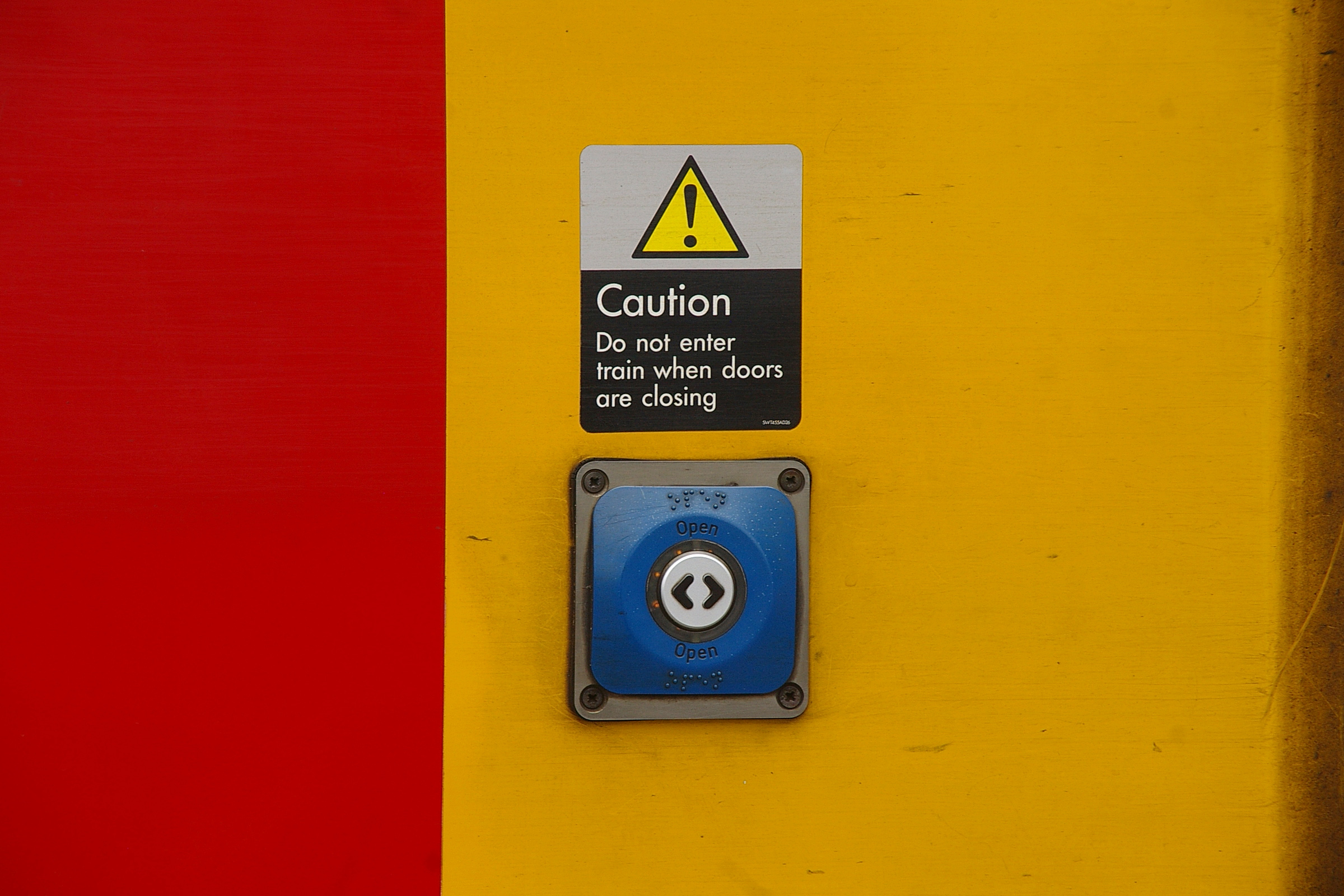 Detail of the door controls of South West Trains 455725 at Guildford railway station.